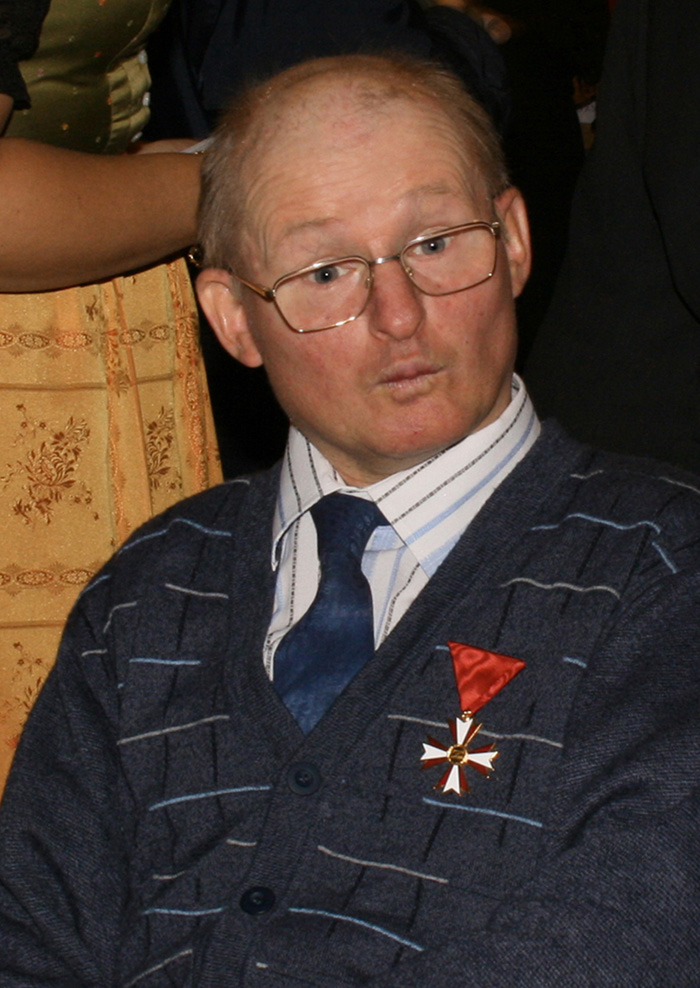 Verleihung Ehrenbürgerschaft